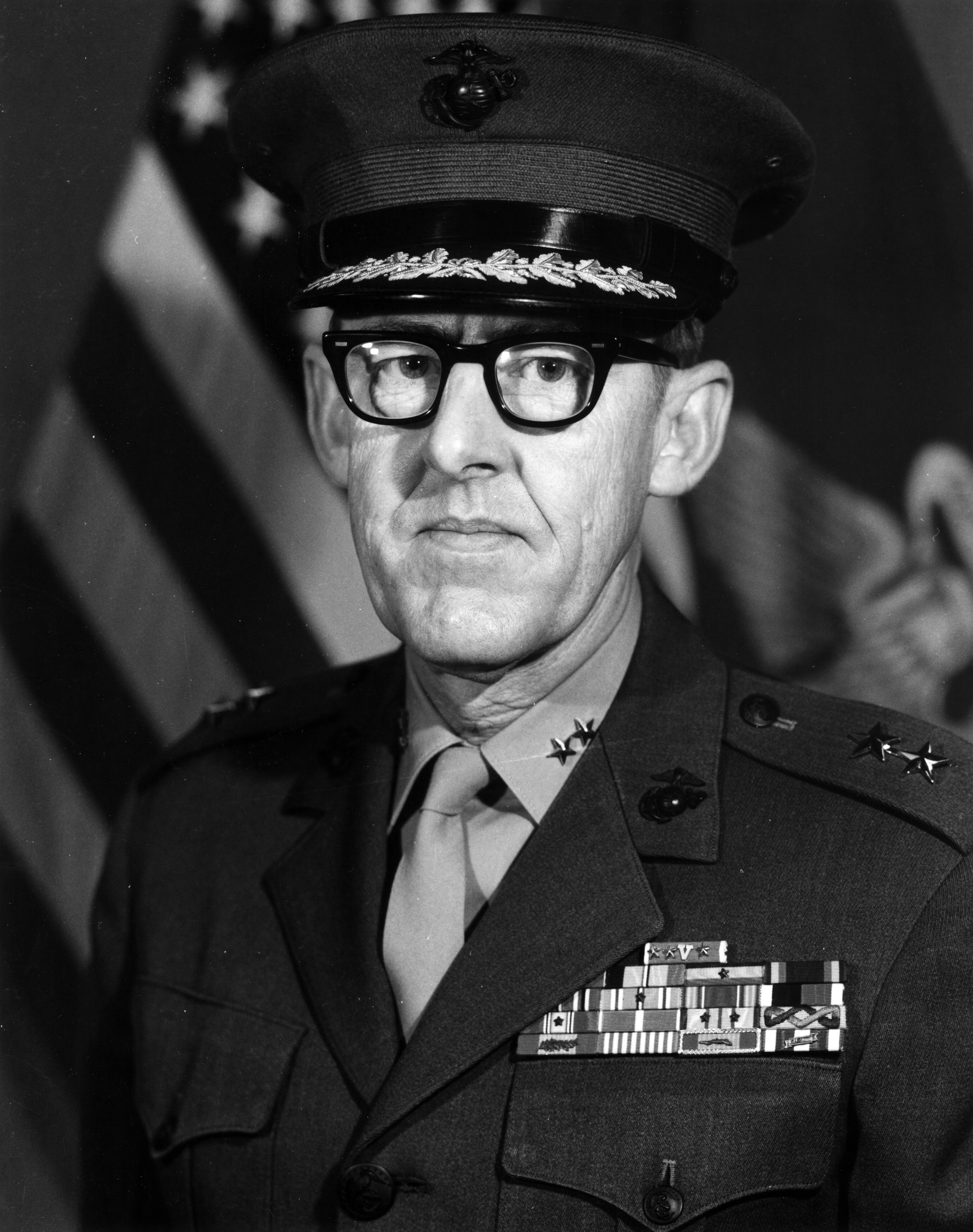 Fred Elmer Haynes Jr. (January 5, 1921 - March 25, 2010) was a decorated officer of the United States Marine Corps with the rank of Major General. He served in three wars and completed his career as Deputy Chief of Staff for Research, Development and Studies at Headquarters Marine Corps. He was the older brother of actor, Jerry Haynes aka Mr. Peppermint.